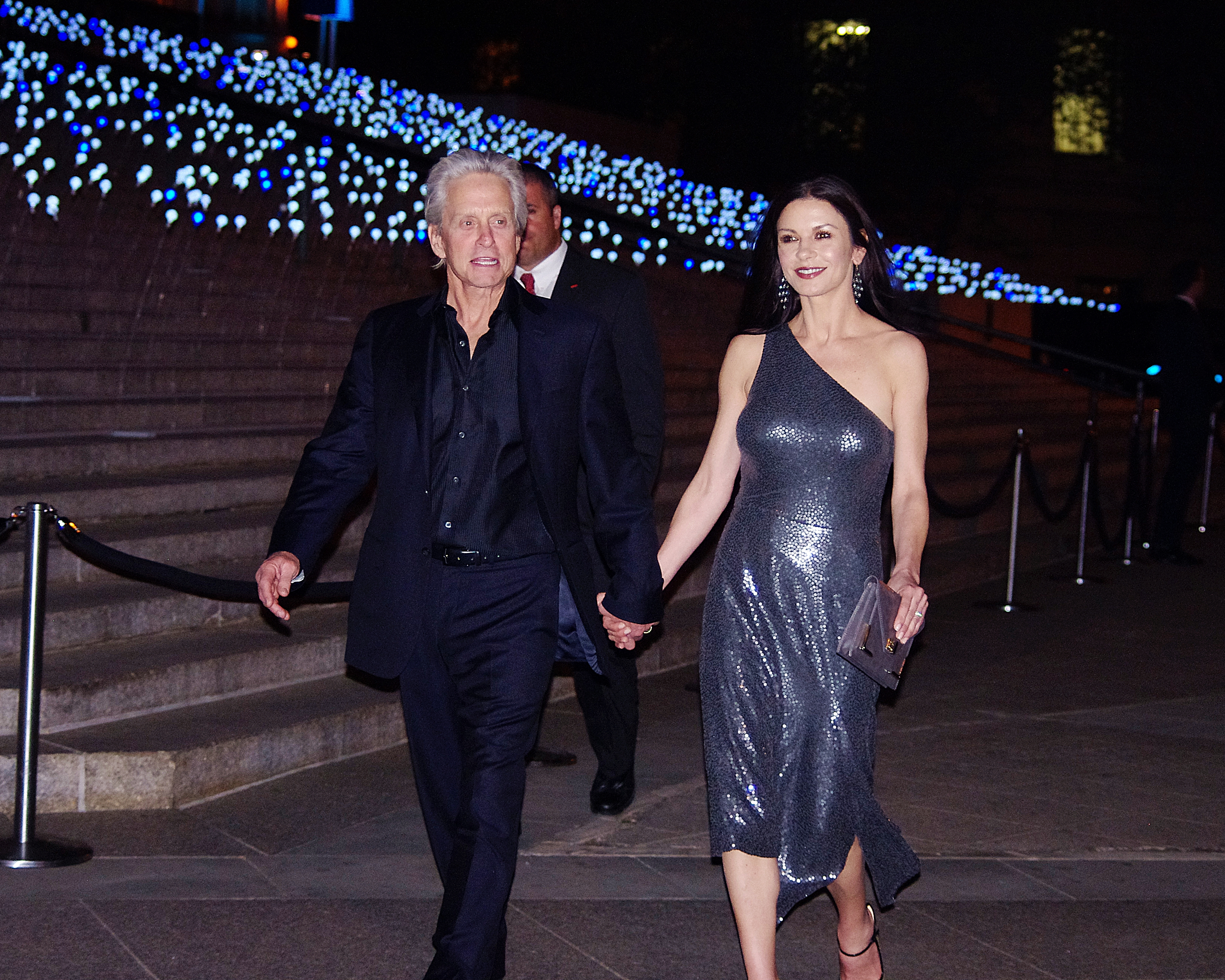 Michael Douglas and Catherine Zeta-Jones at the Vanity Fair party for the 2012 Tribeca Film Festival.